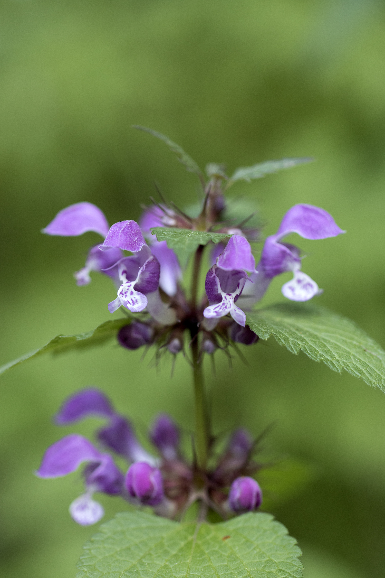 Dead-nettles (Lamium sp.). in Saimbeyli - Adana, Turkey.